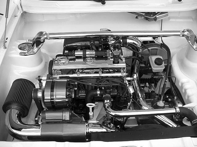 VW Golf MK1 with a G-lader supercharger fitted